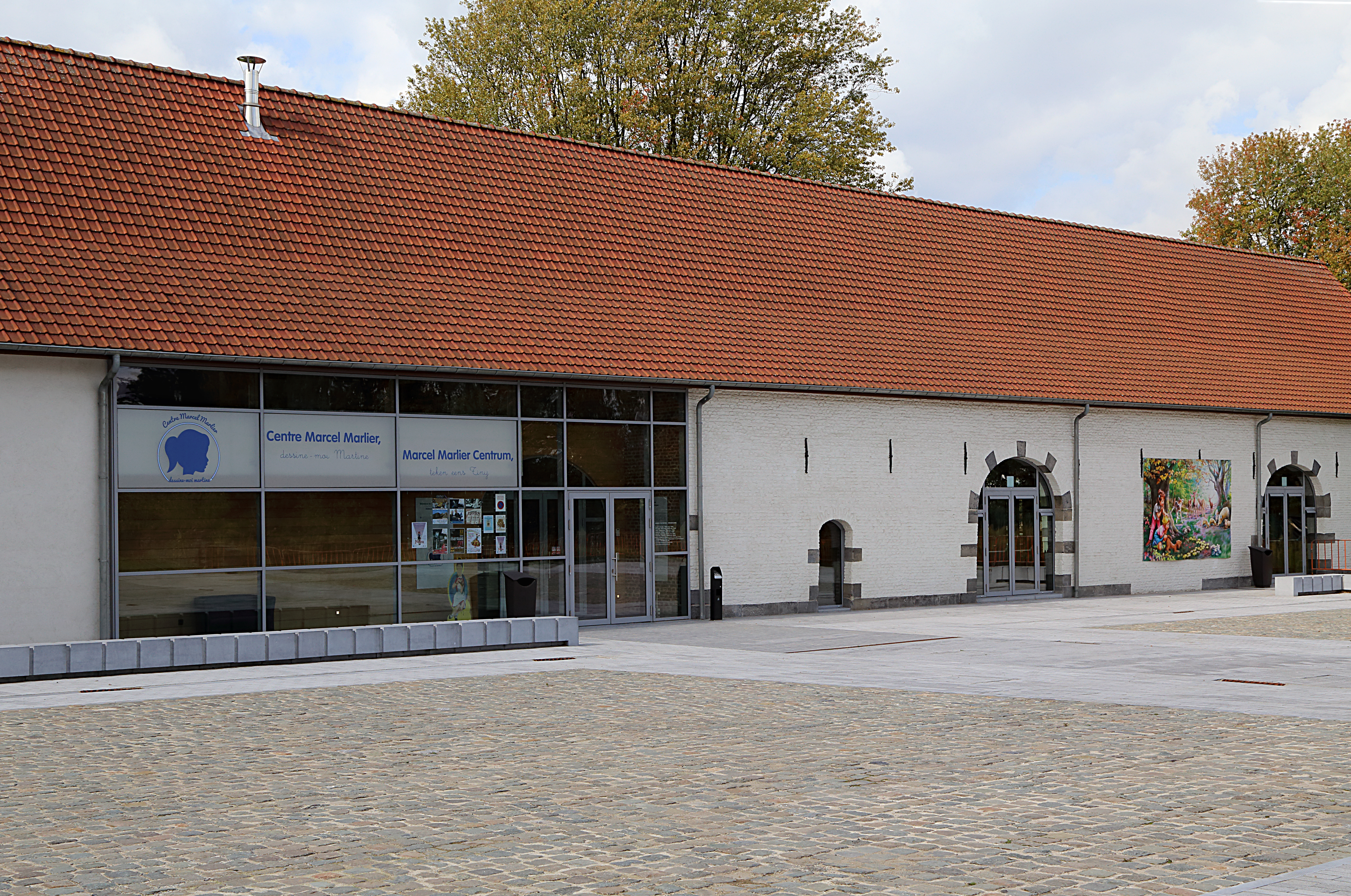 The Marcel Marlier Centre, dessine-moi Martine (draw me Debbie) in Mouscron, Belgium.